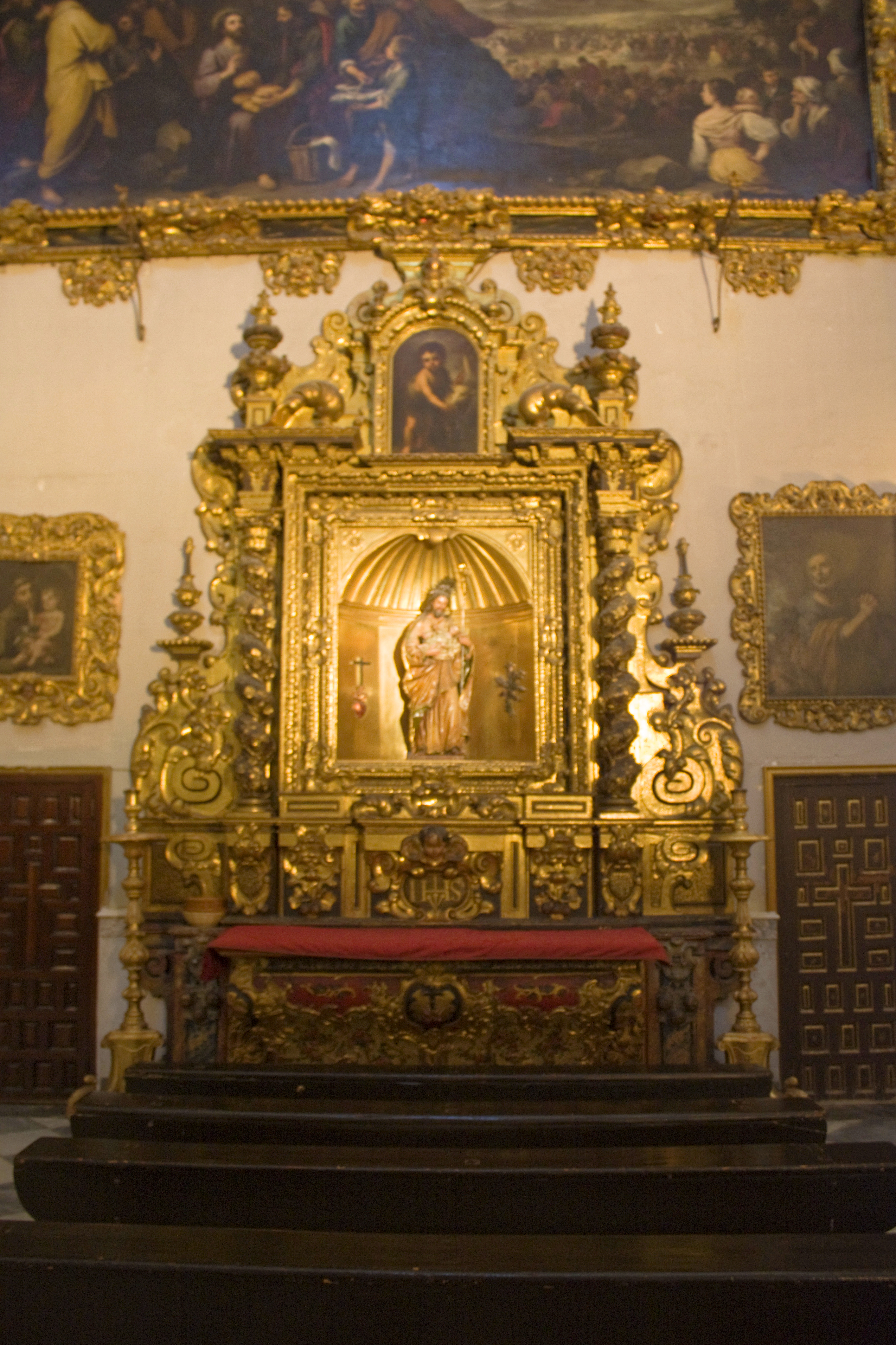 The main altar and the altarpiece work of Bernardo Simón de Pineda, the scupture by Cristóbal Ramos.